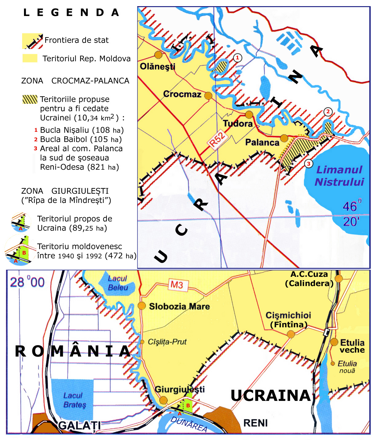 Territorial exchange (aborted) between Moldova & Ukraine